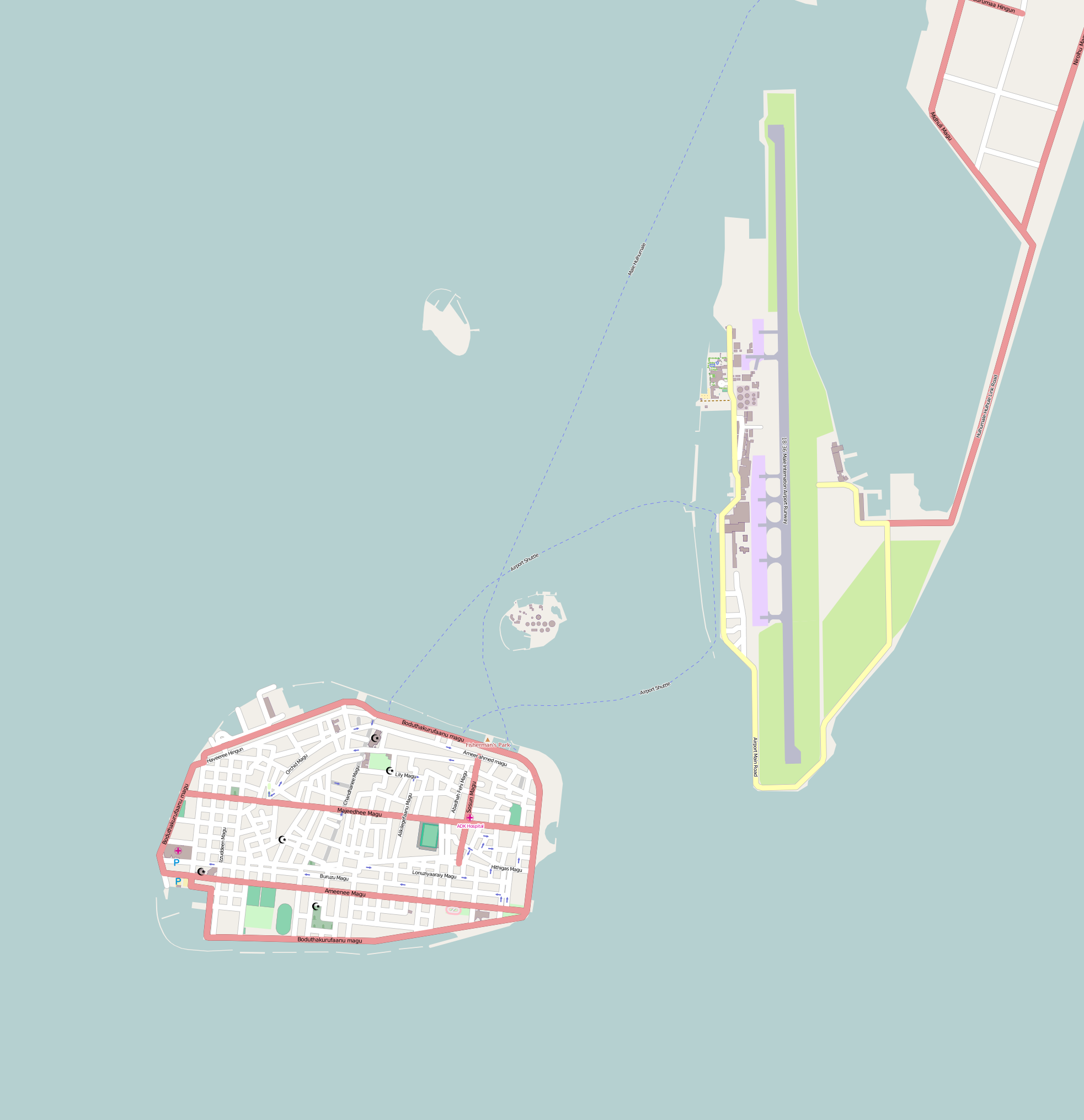 Open Street Map of the Malé Airport.